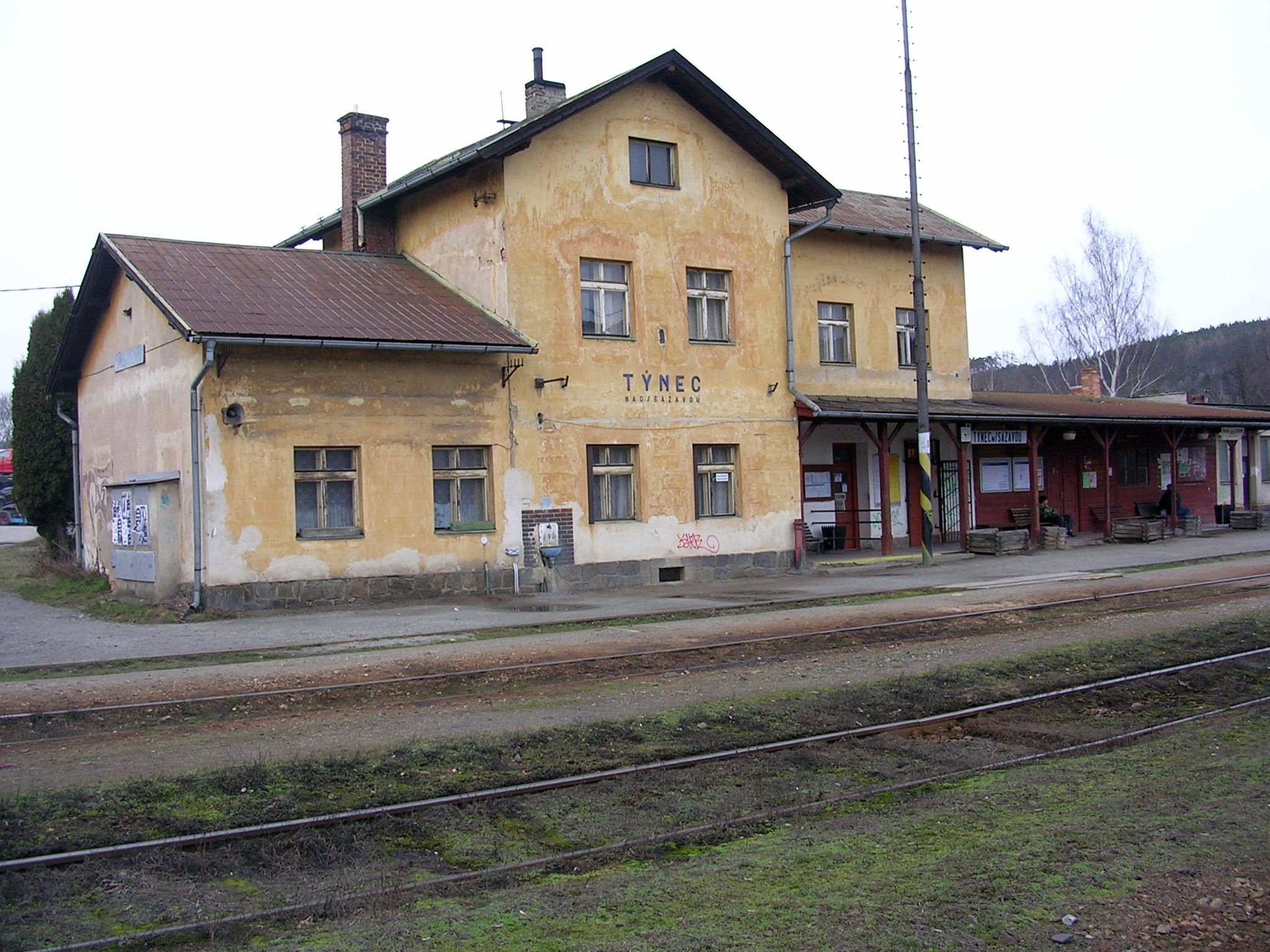 Týnec nad Sázavou, the Czech Republic. The train station "Týnec nad Sázavou".